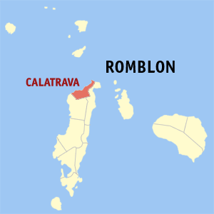 Map of Romblon showing the location of Calatrava